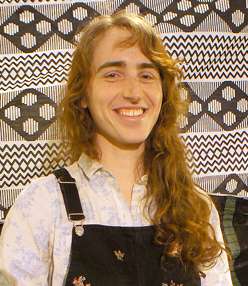 Artist and animator Anna Keyes of New York Transgender Advocacy Group at Past and Future Fictions at MoMA PS1 in the VW Dome with Art + Feminism. Personal Documentary.